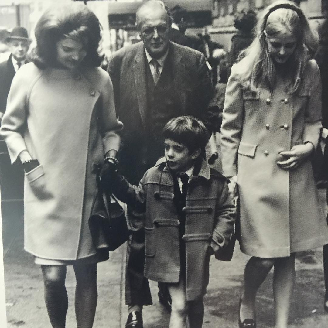 Randolph Churchill with daughter Arabella and Jacqueline Kennedy in 1966 New York